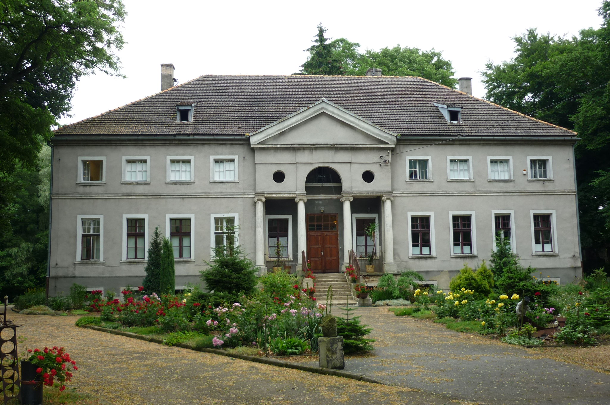 Palace in Sławnikowice, Poland